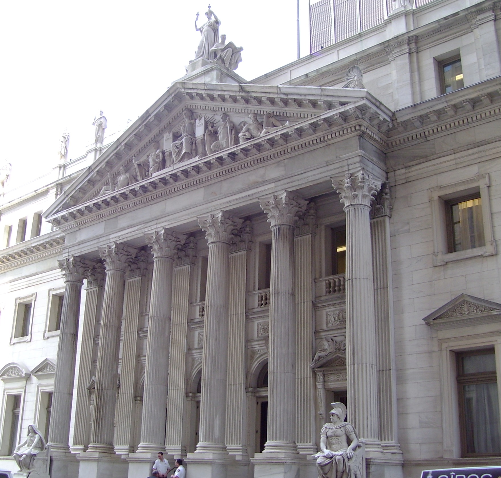 Appellate Division of the New York State Supreme Court, on East 25th Street at Madison Avenue, in Manhattan, New York City.